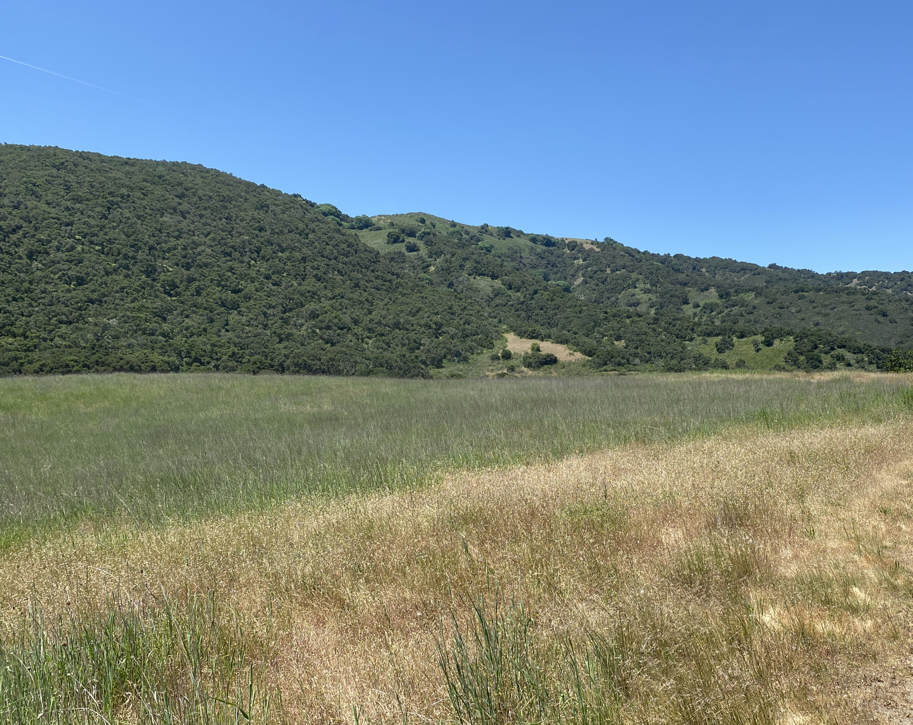 This is the Mesa hike from the Via Las Encinas Trailhead.